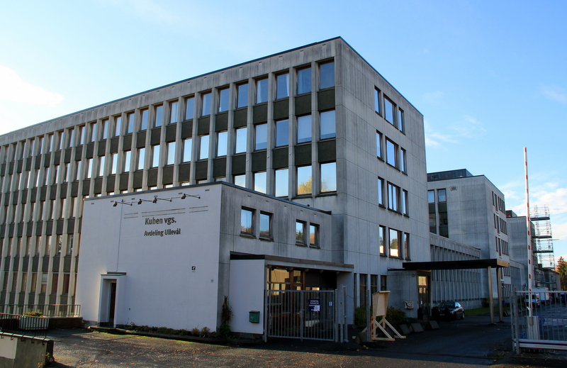 Kuben Upper Secondary Schools department at Ullevål in the old buildings of Sogn Upper Secondary School.